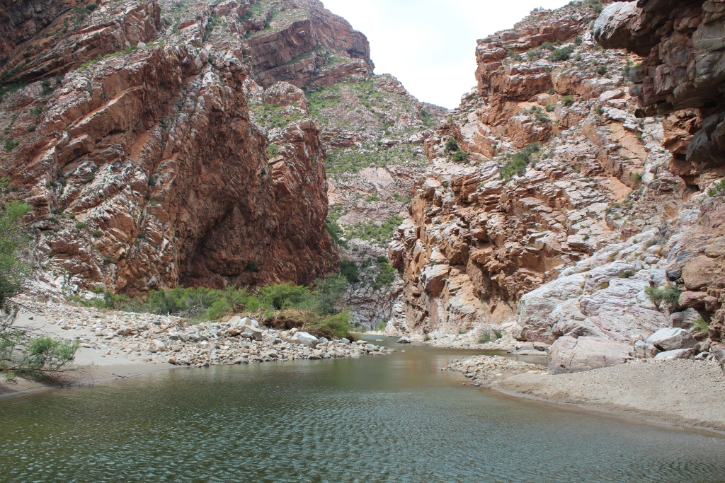 Buffelspoort. The Buffelsrivier flowing southwards at the bottom of the gorge